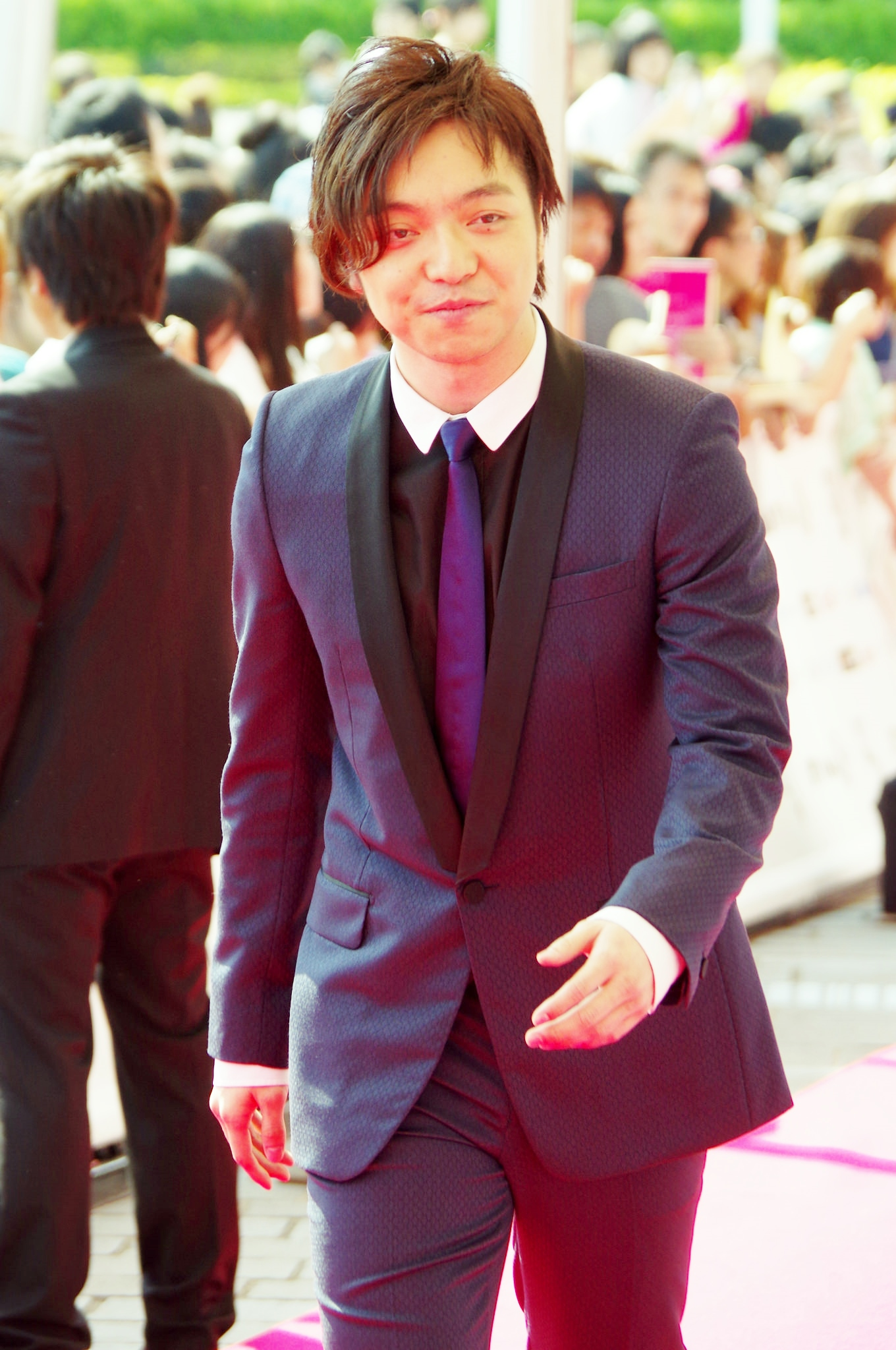 Daichi Miura / red carpet at MTV VMAJ 2014